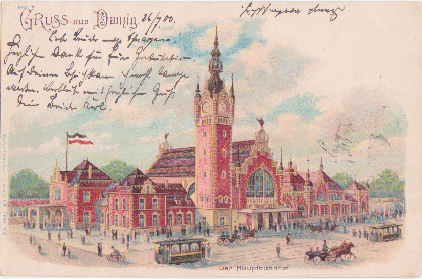 Gdańsk Główny. Neo-Renaissance Gdańsk railway station (built from 1896 to 1900). Lithographic postcard from 1906. Publisher: Kunstanstalt J.Miesler. Berlin S.